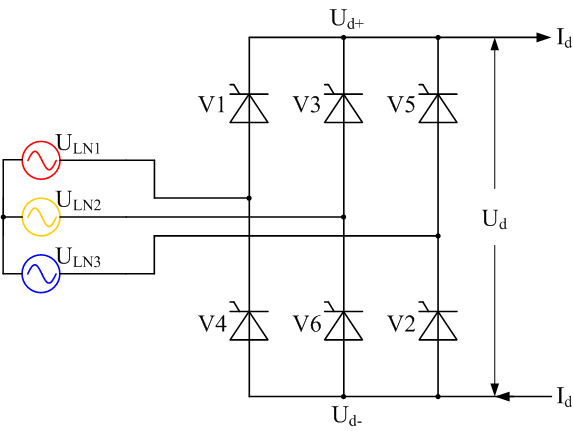 Three-phase Graetz bridge rectifier circuit, using thyristors as the switching elements, neglecting supply inductance